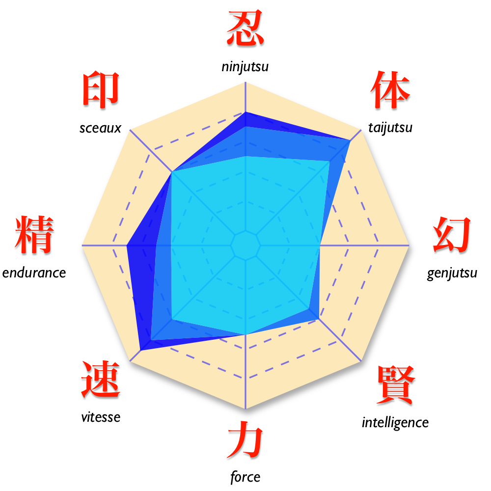 Naruto Manga - Character "Neji" - Capabilities evolution diagram from Official Databooks data